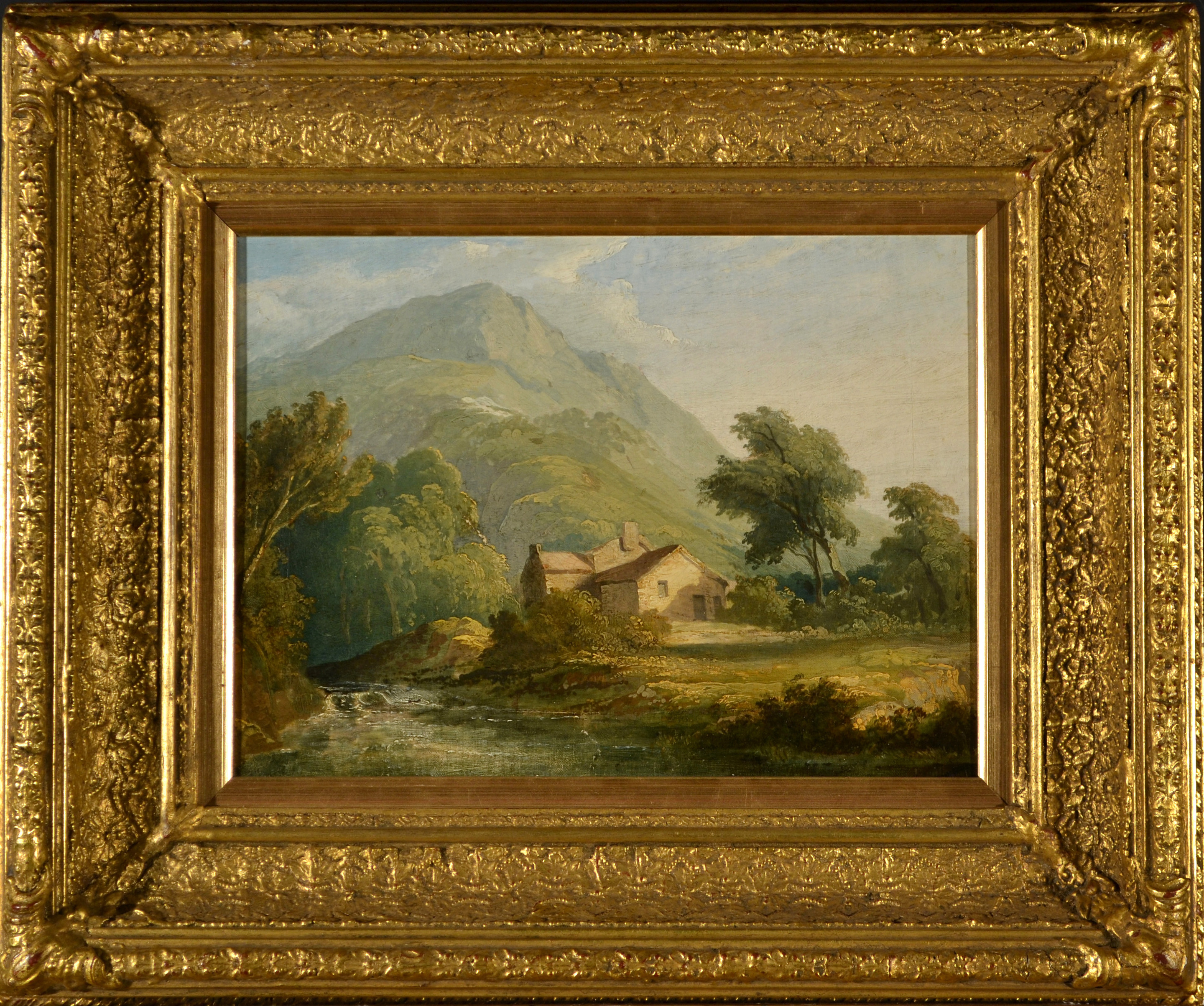 Stone House beneath the Mountains painting by Olivia Serres (died 1834)